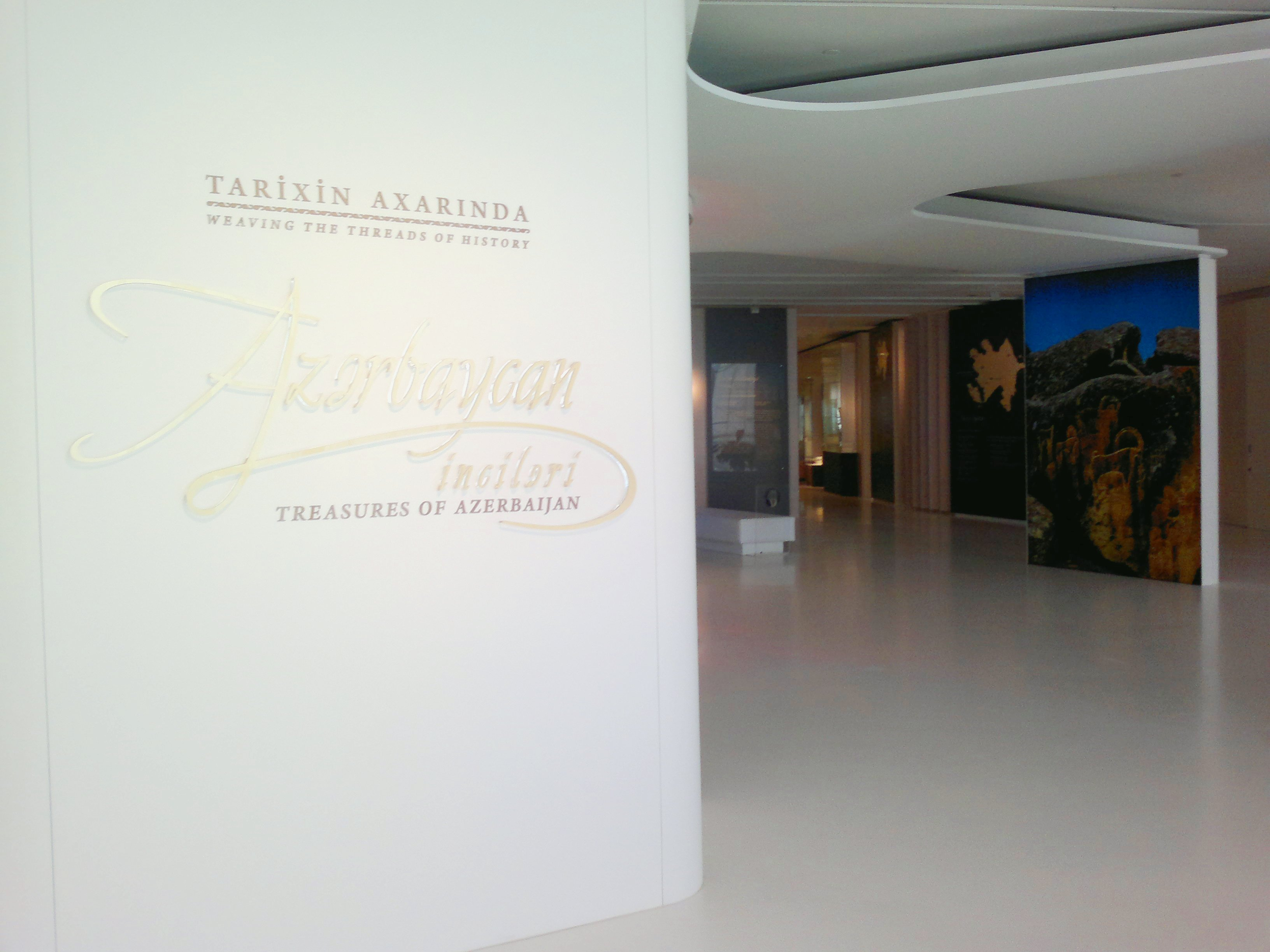 Masterpieces of Azerbaijan Hall at Heydar Aliyev Center